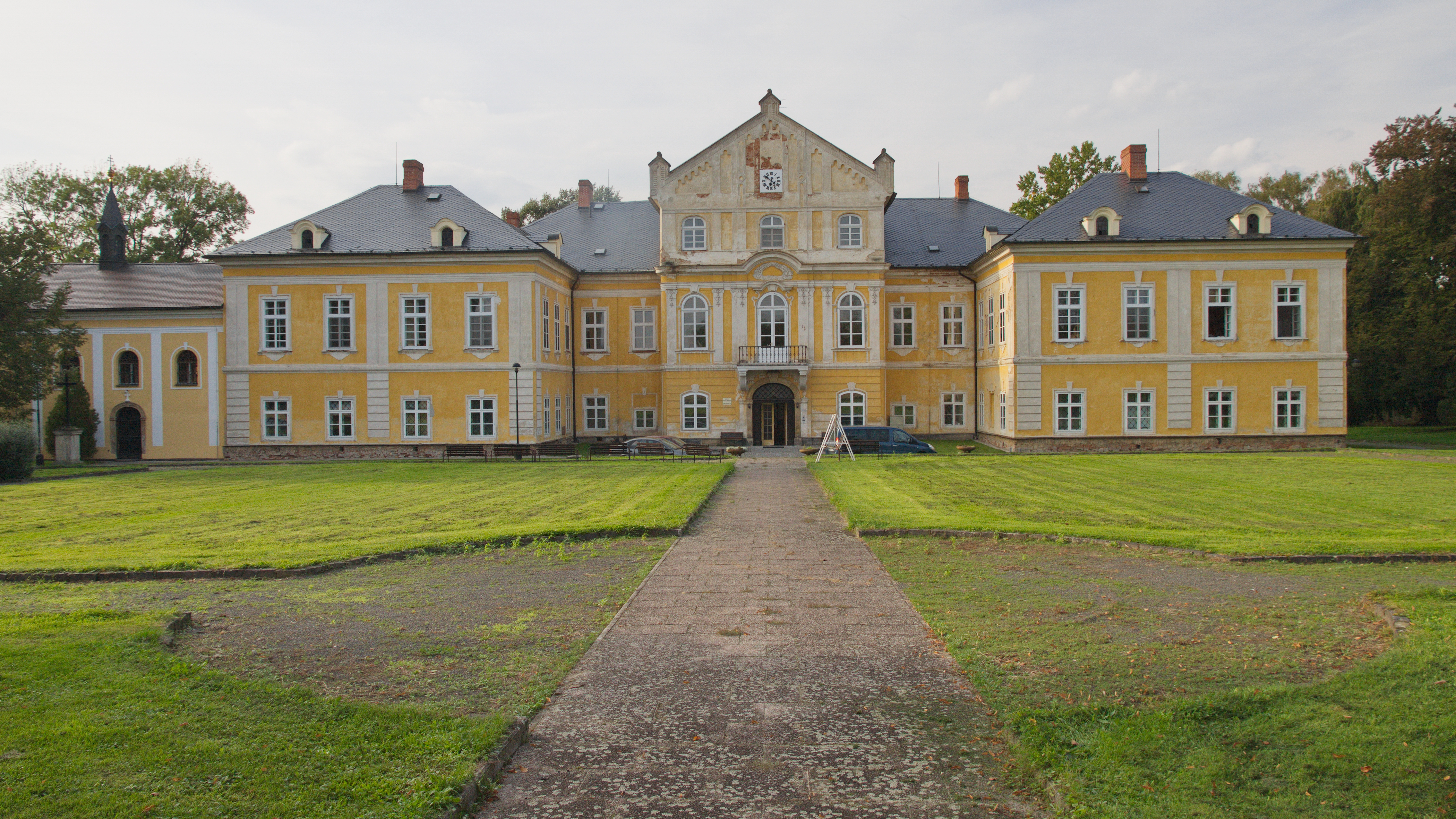 Castle, Nová Horka, Studénka. Moravian-Silesian Region, Czech Republic.